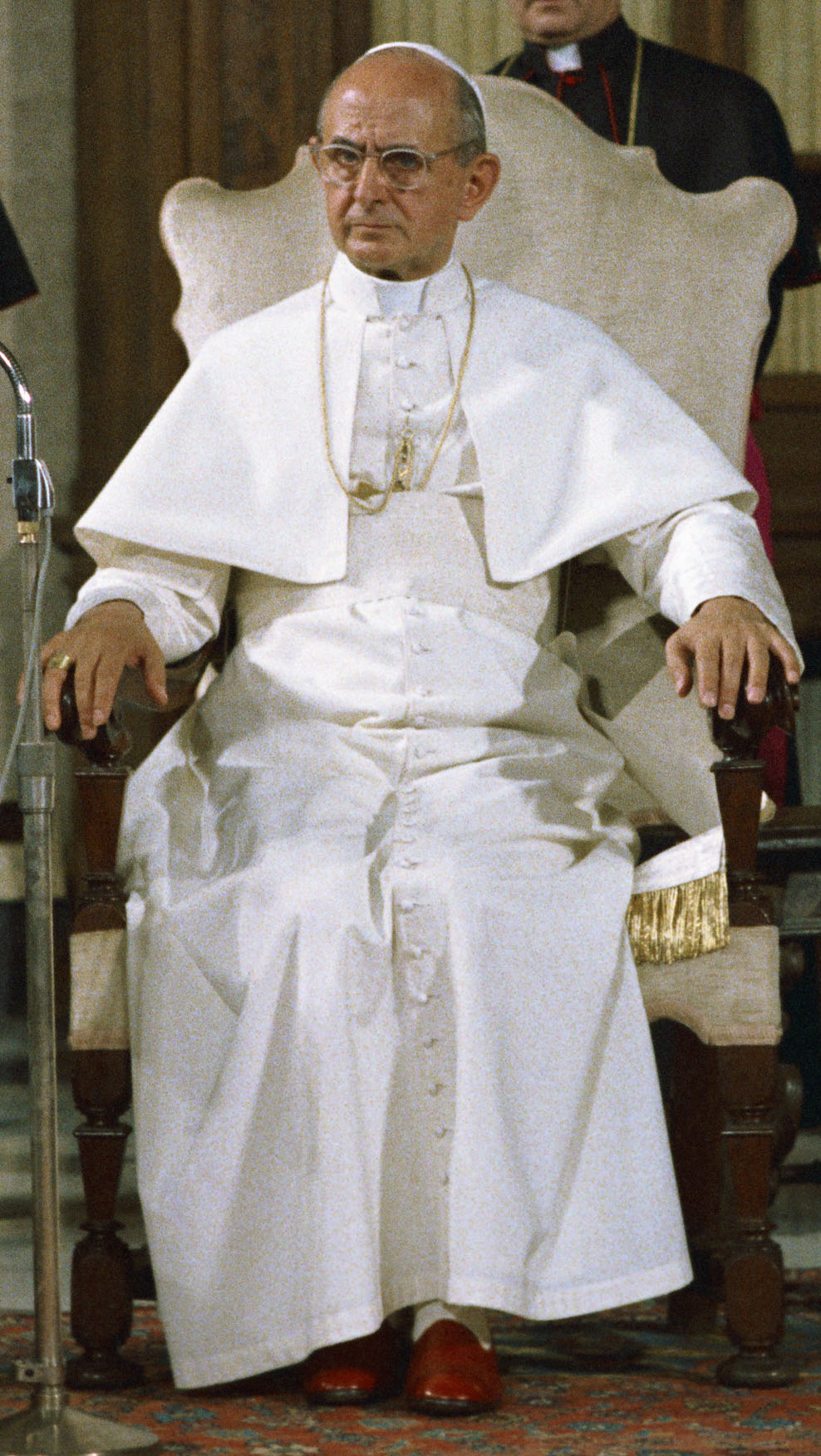 Scope and content: Pictured: Richard M. Nixon, Pope Paul VI, Pat Nixon. Subject: Church Services and Religious Figures.